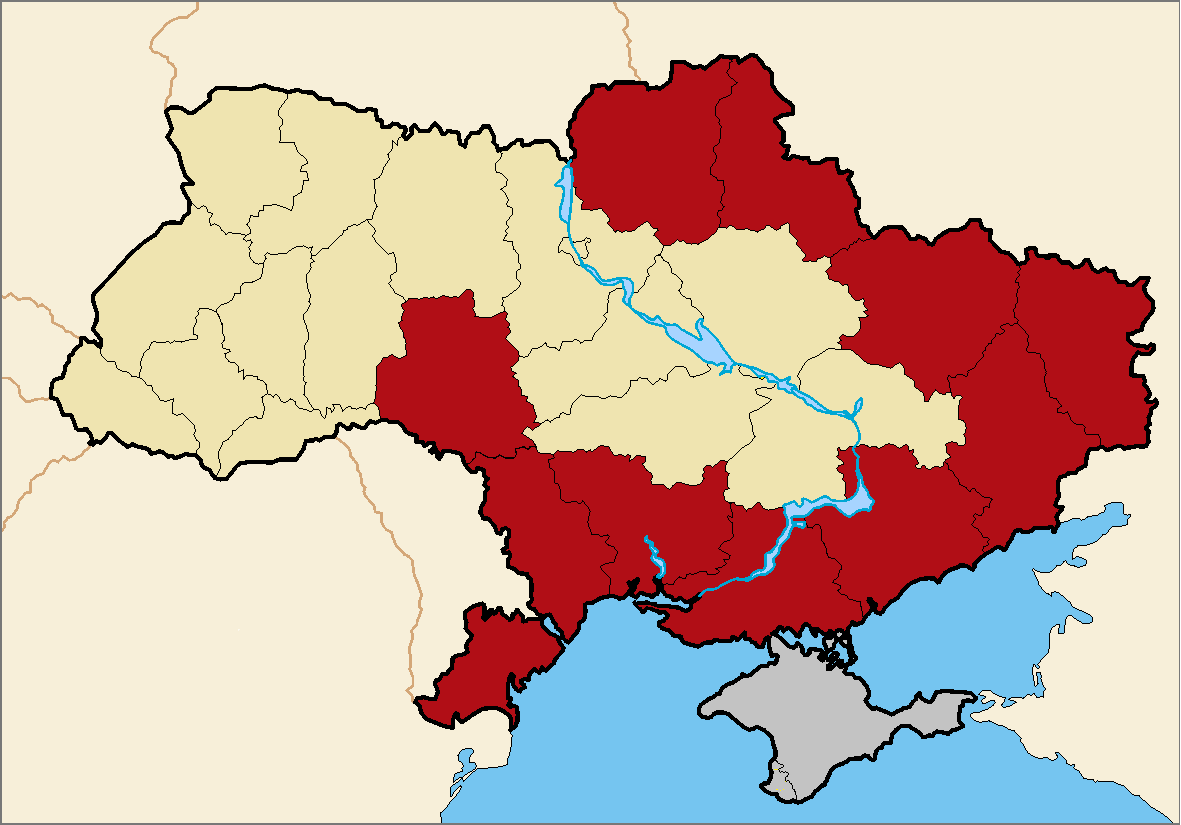 based on